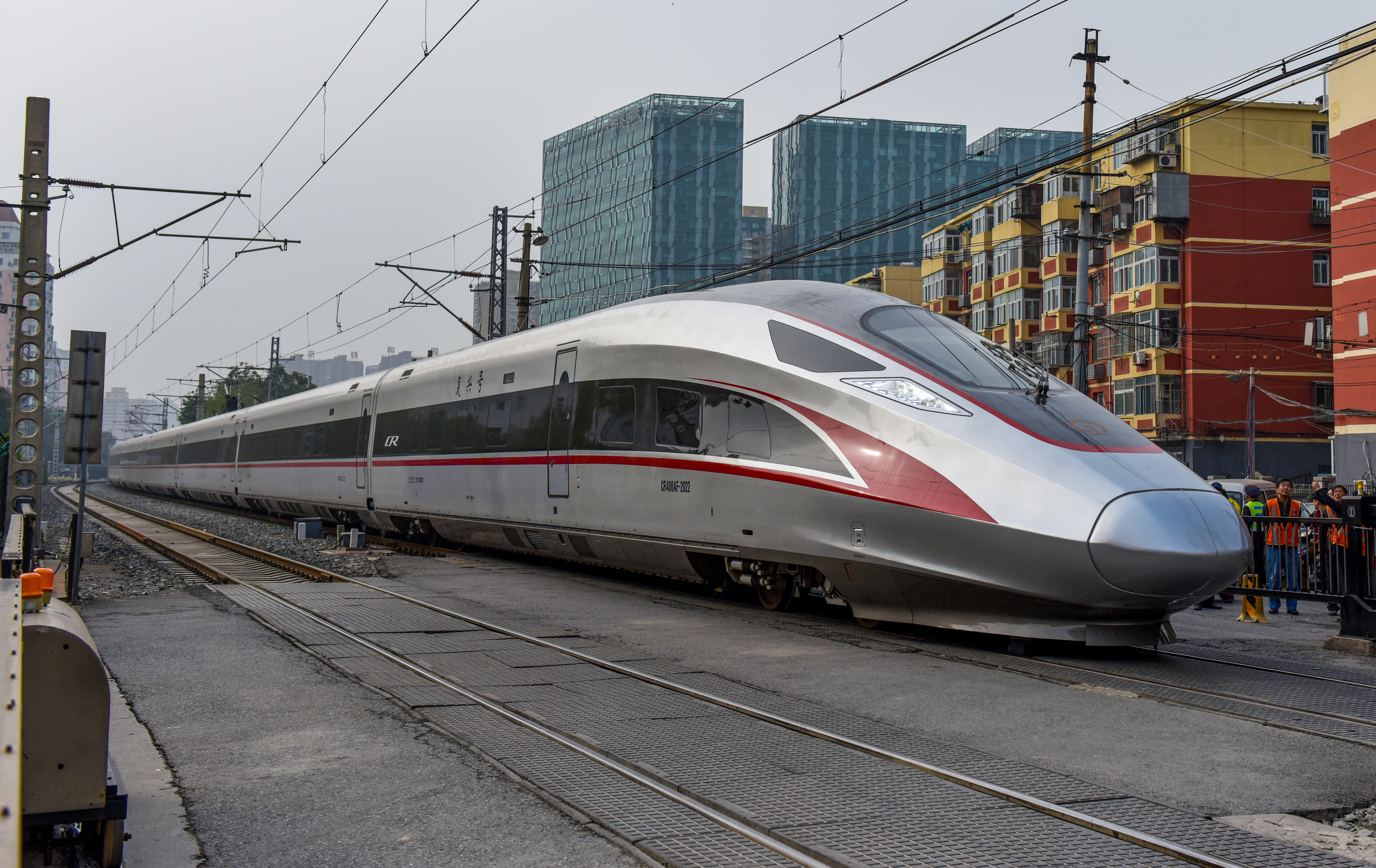 0G80 from depot - it would leave for Futian as G79 at 10:00AM sharp. First time to see this big grey fellow at this good old level crossing.